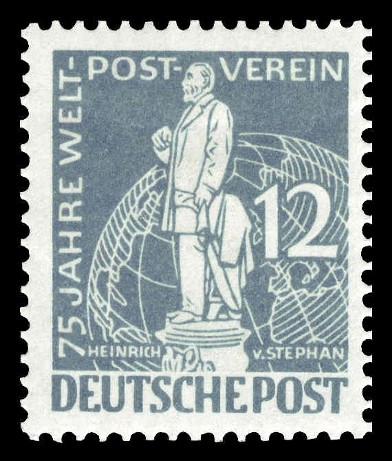 75 Jahe Weltpostverein (UPU)